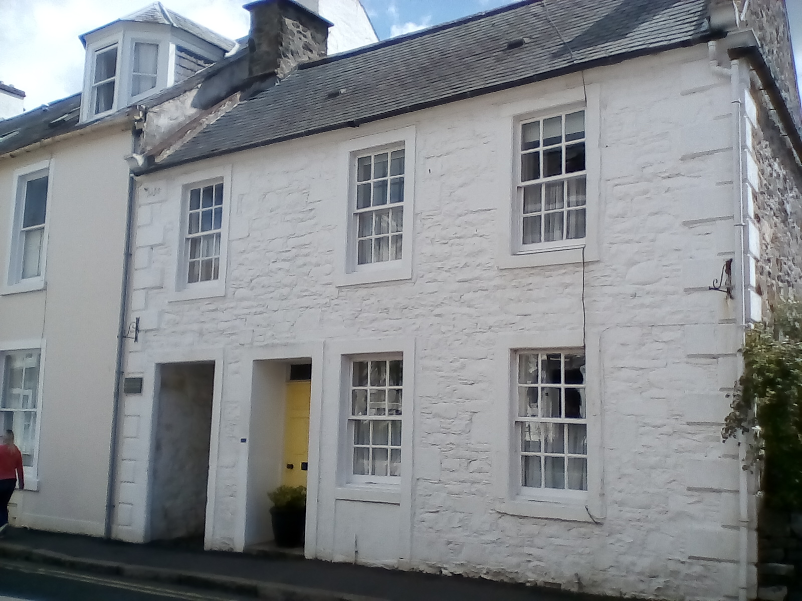 "The Yellow Door" home and studio of artist James Gunyeon (Tim) Jeffs (1904-1975) in the Artists' Town of Kirkcudbright, Scotland.